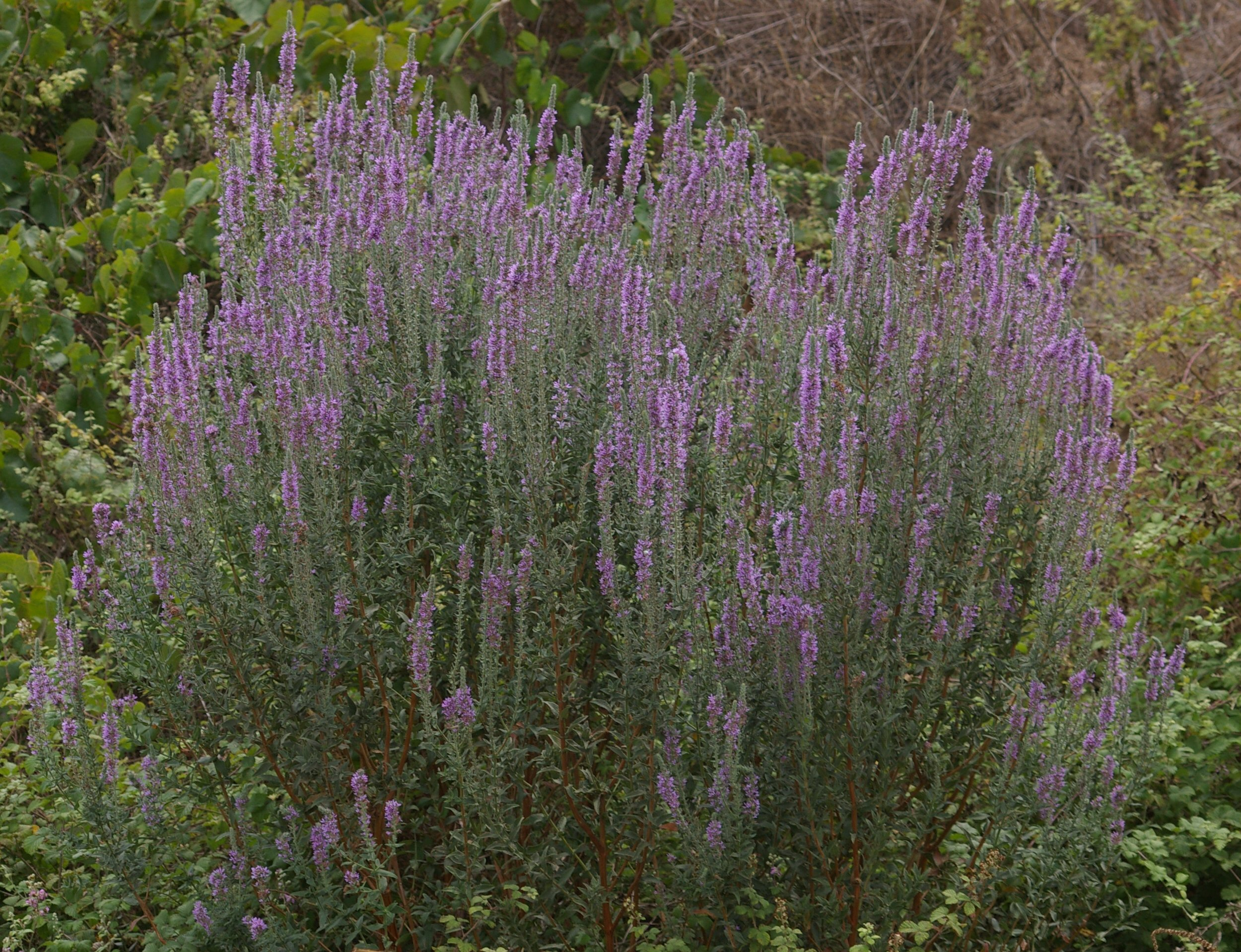 Lythrum salicaria, in a rivulet, Mennashe hills (eastern Carmel)